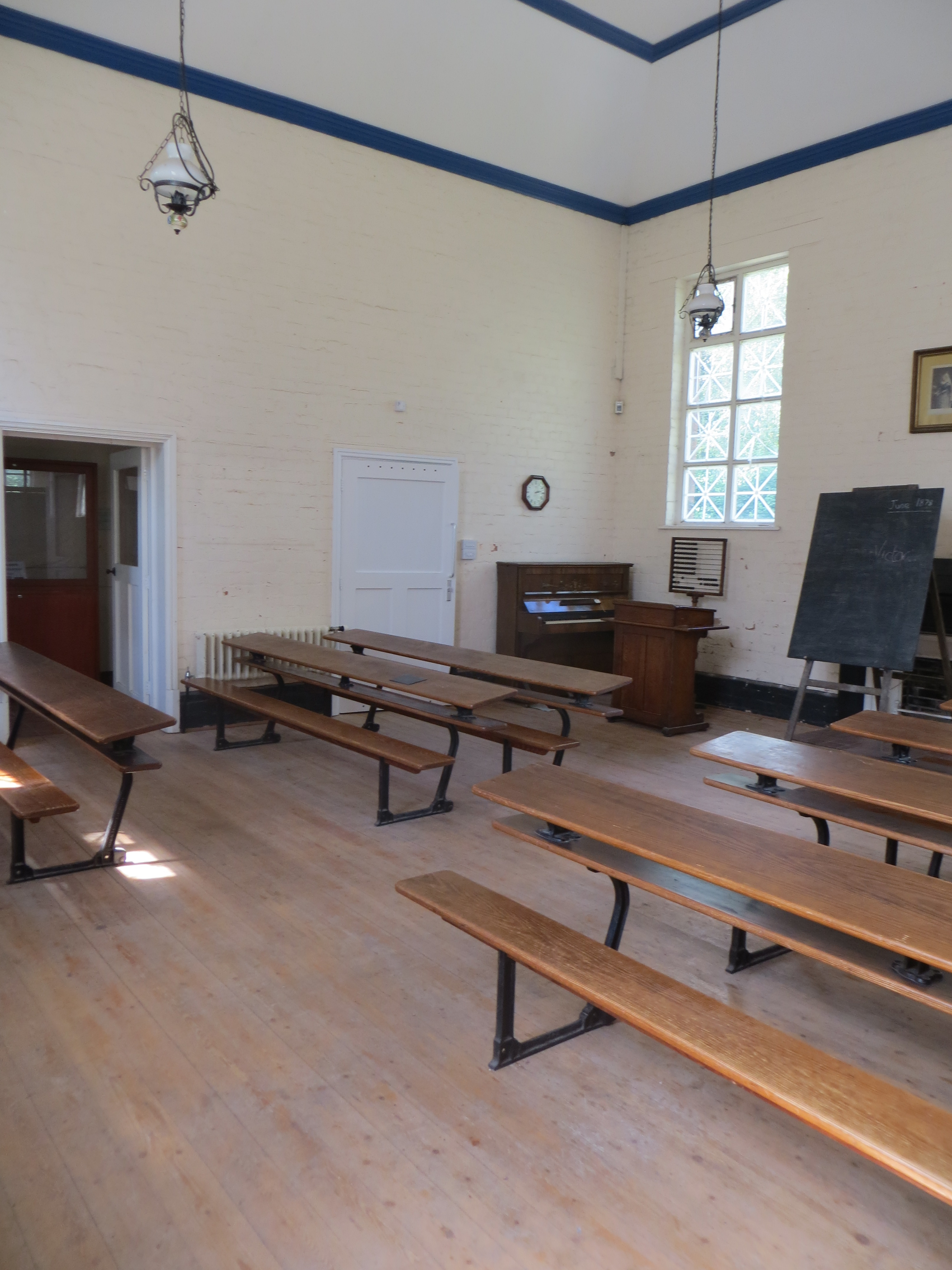 Greenfield Valley Heritage Park